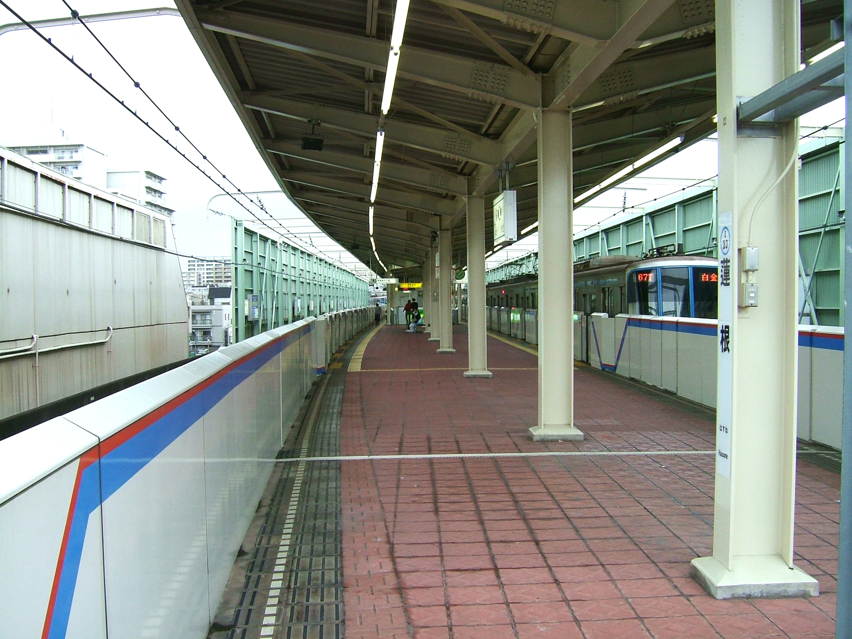 The platforms at Hasune Station on the Toei Mita Line in Itabashi city, Tokyo, Japan